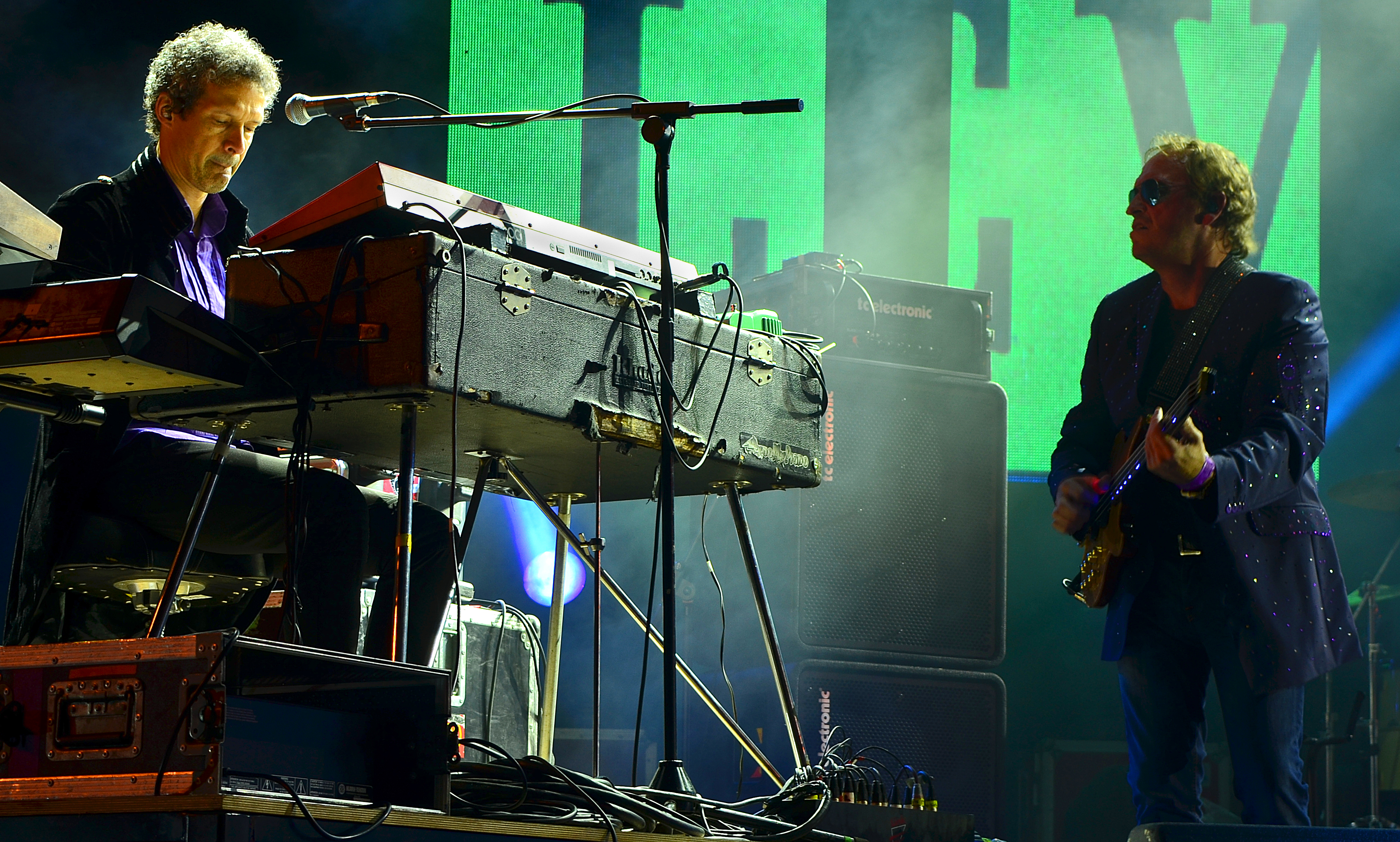 Let's Rock Bristol took place at The Ashton Court Estate, Bristol, 6-8 June 2014. It was attended by over 10,000 people. The festival included the following (mainly British) artists: Then Jerico, Brother Beyond, Bananarama, Tony Hadley, Belinda Carlisle, Alexander O'Neil, Go West, Boney M, Midge Ure, Heaven 17, The Christians, China Crisis, Doctor and The Medics, Sonia, Jaki Graham, Carol Decker of T'Pau, Level 42, Rick Astley, Kim Wilde, ABC, Nik Kershaw, Matt Bianco, Imagination, The Blow Monkeys, Toyah and Johnny Hates Jazz.